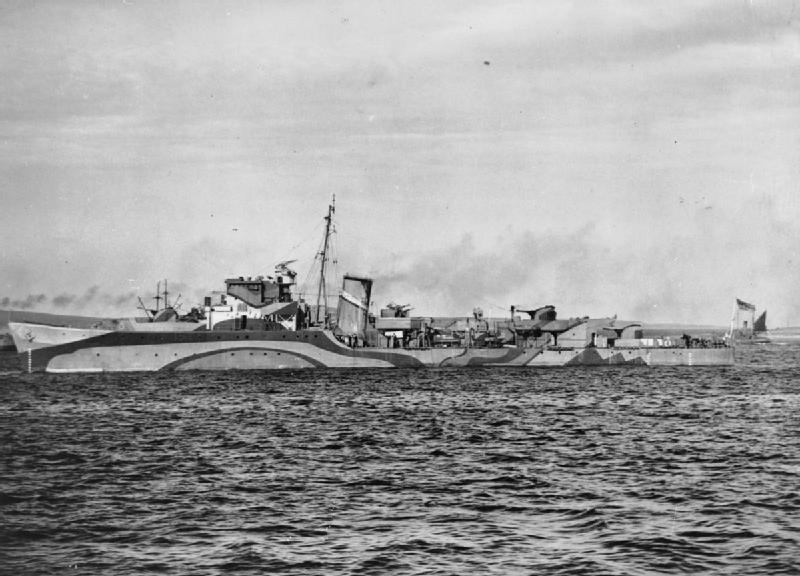 Photograph of British Hunt class destroyer HMS Tetcott, on a convoy to Russia.